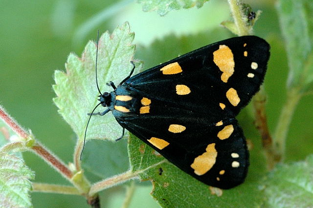 Picture taken in Commanster, Belgian High Ardennes . Species: Callimorpha dominula